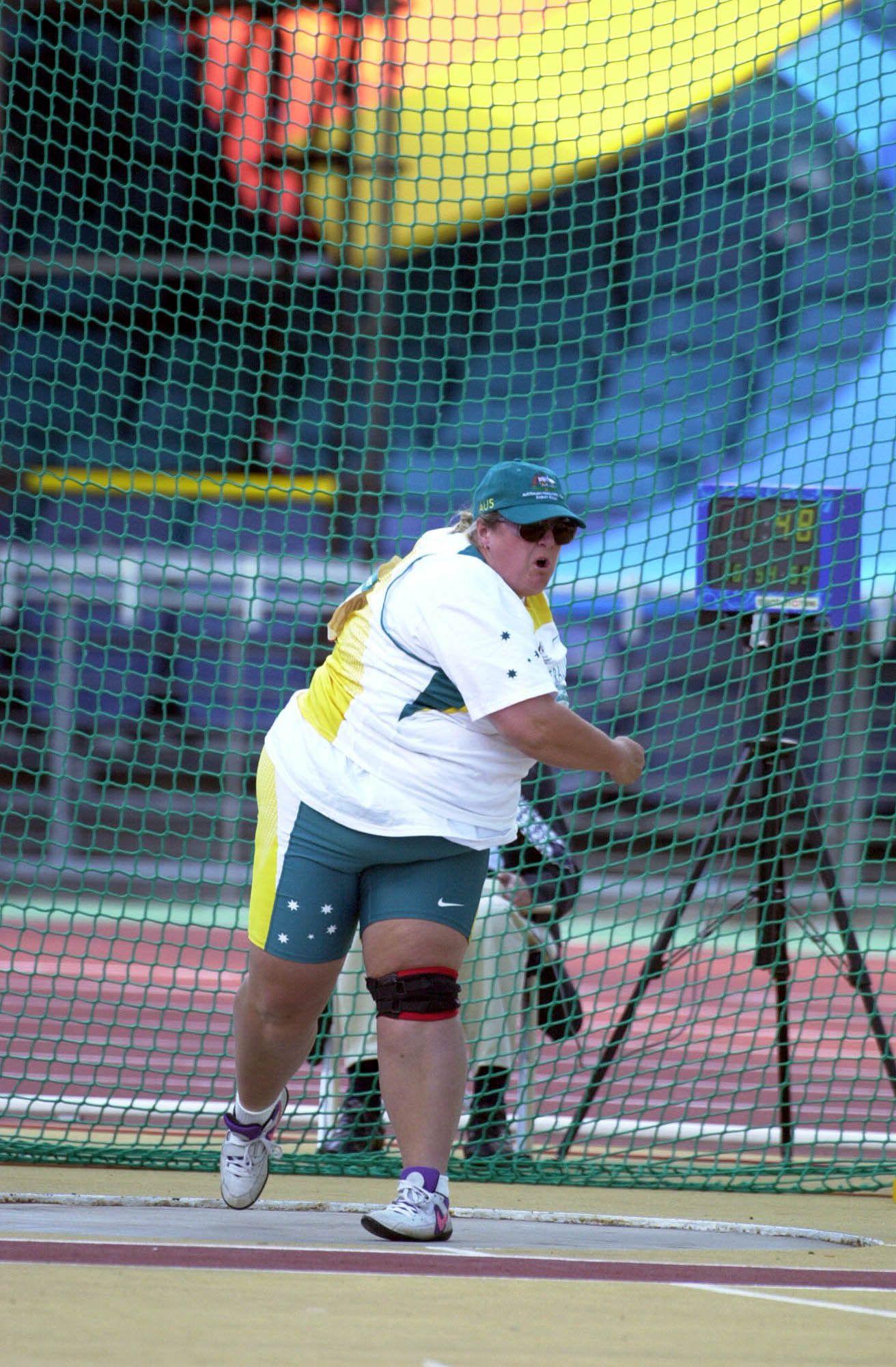 Action shot of Australian discus athlete Jodi Willis-Roberts throwing the discus at the 2000 Sydney Paralympic Games, Day 02